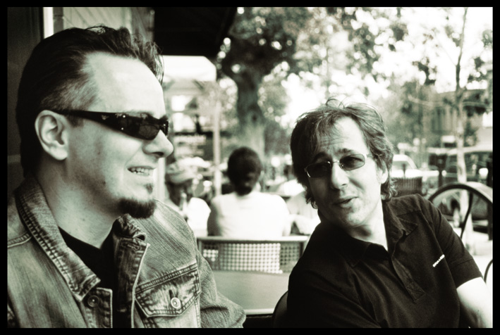 Photo of Porcupine Tree band in 2005 by Lasse Hoile.